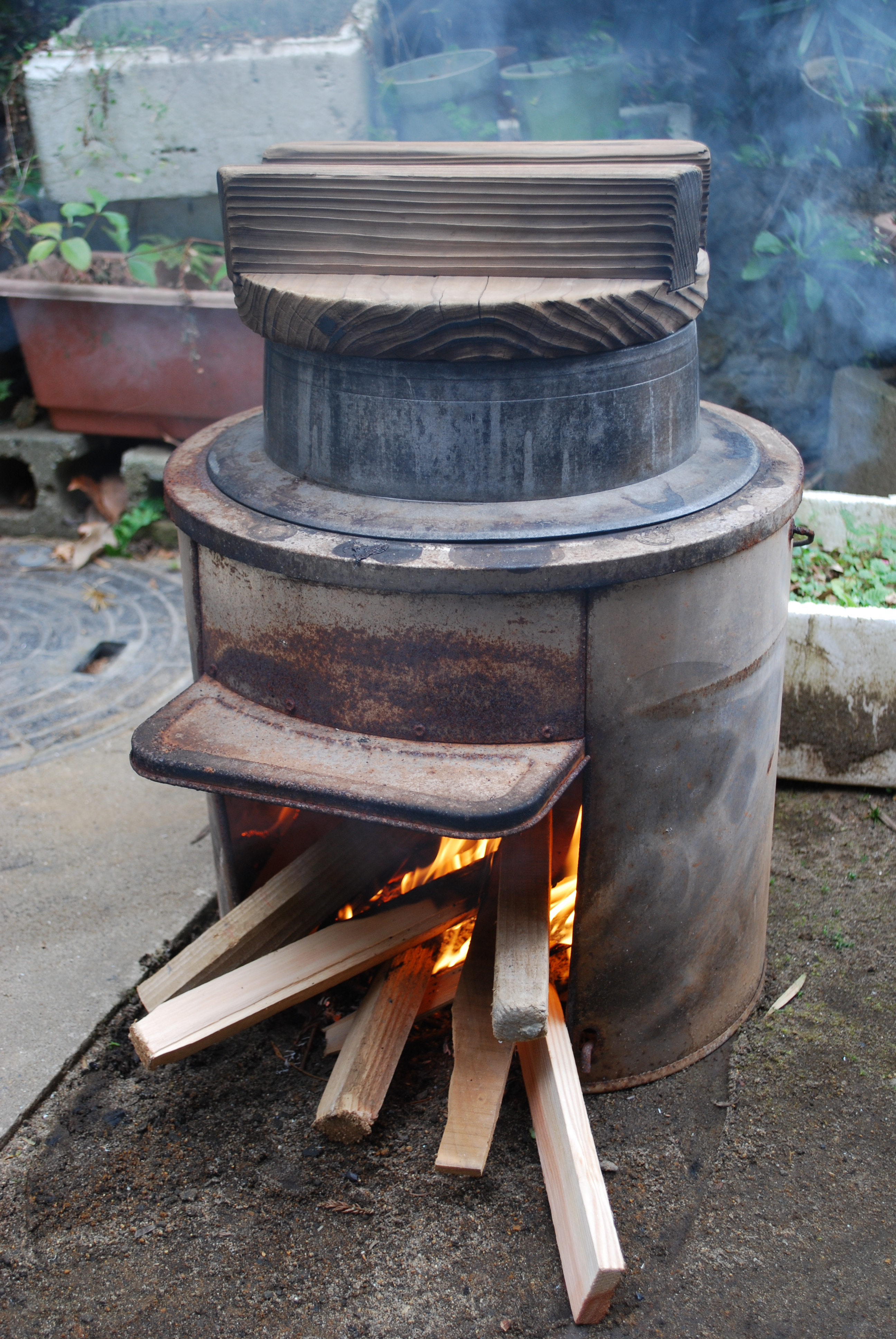 Simple japanese hearth,Kamado,Katori-city,Japan